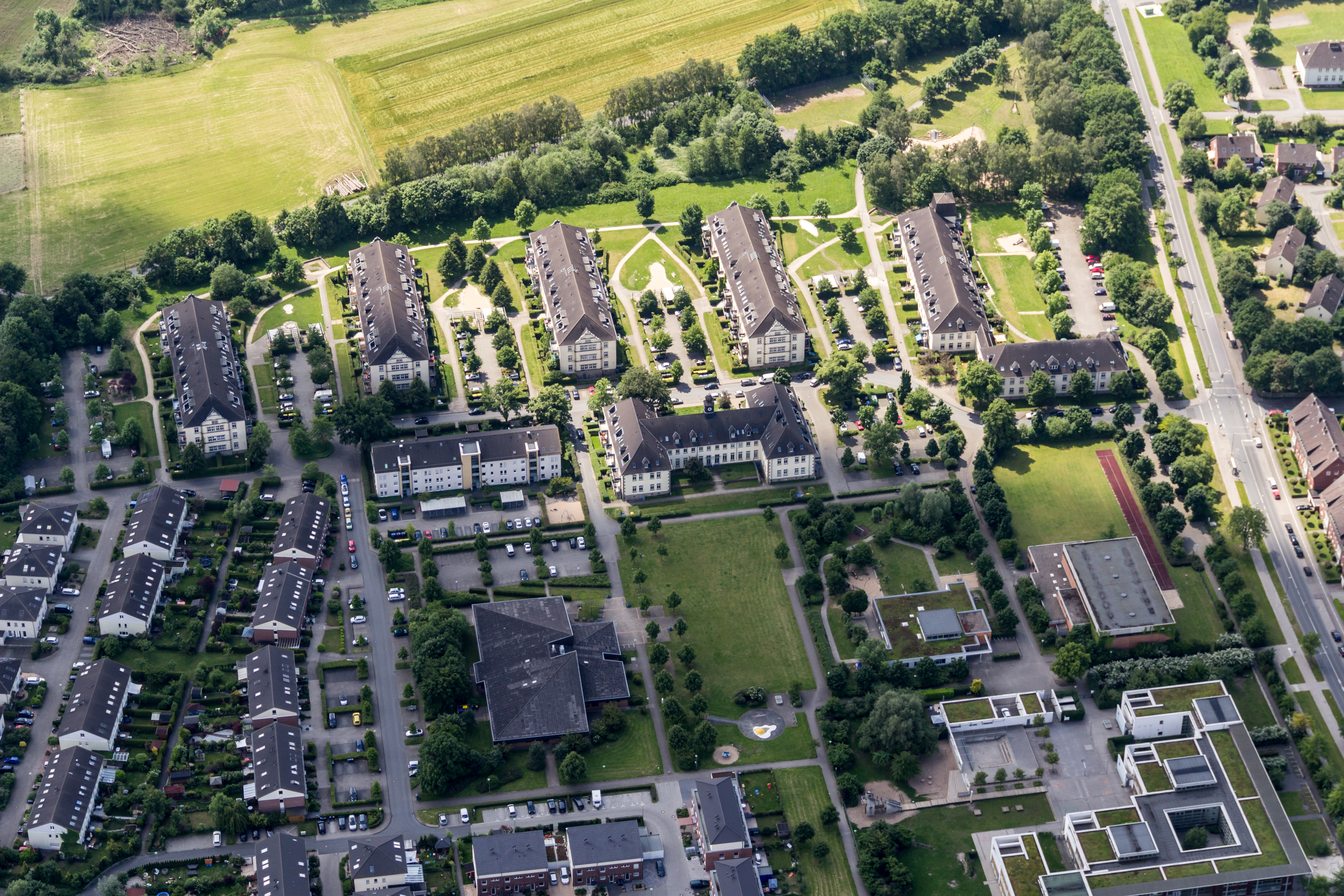 Residential area “An der Meerwiese”, Münster, North Rhine-Westphalia, Germany